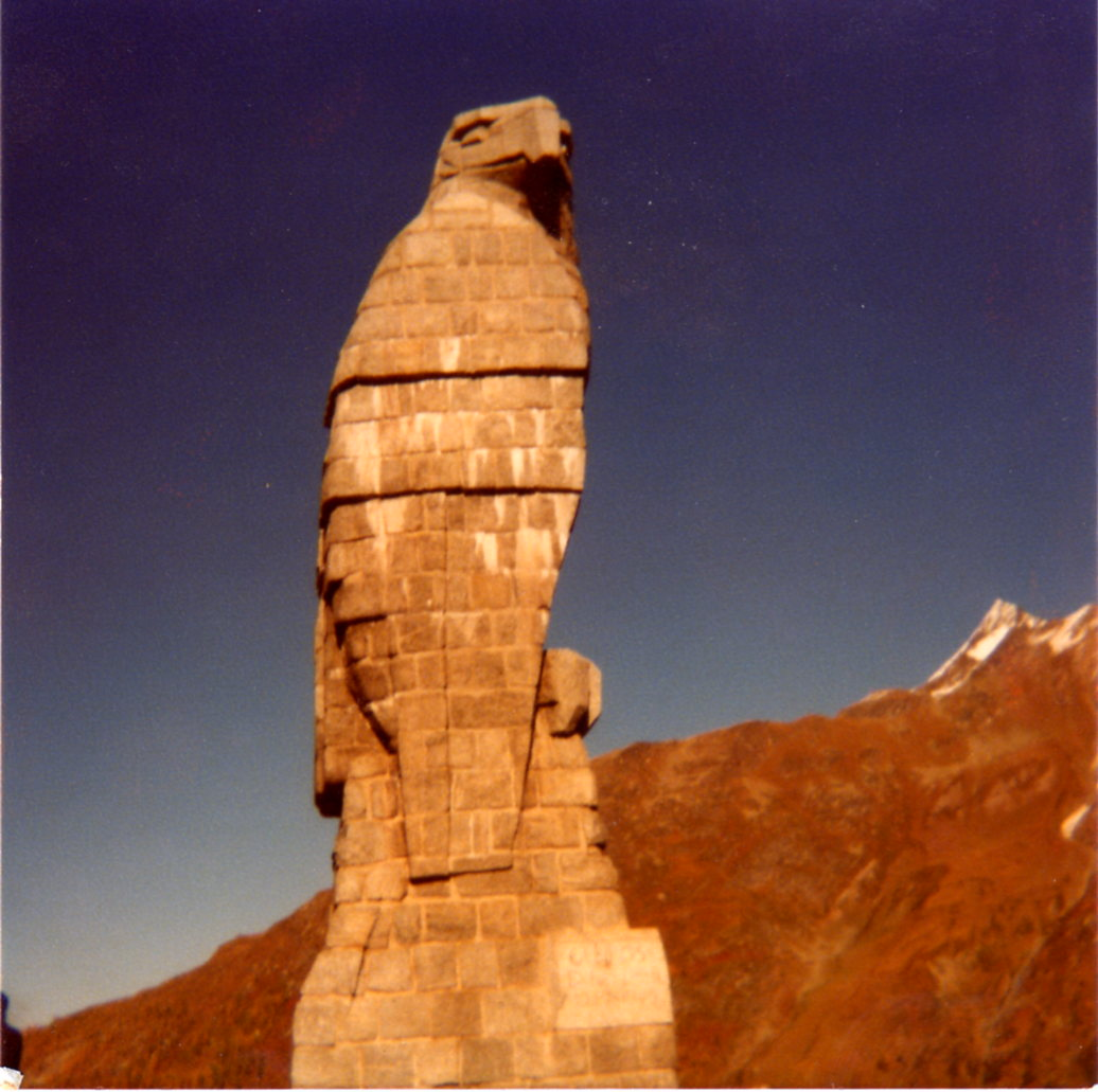 Harold Baumann